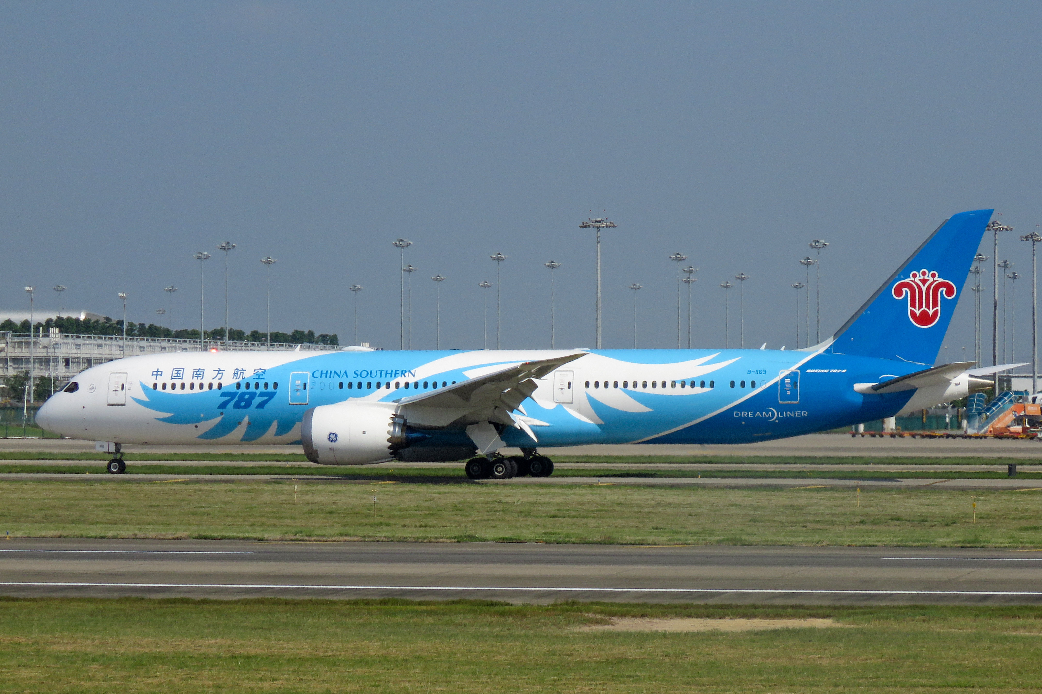 China Southern 3112 from Beijing. This is CZ's first 787-9 with a three-class layout.